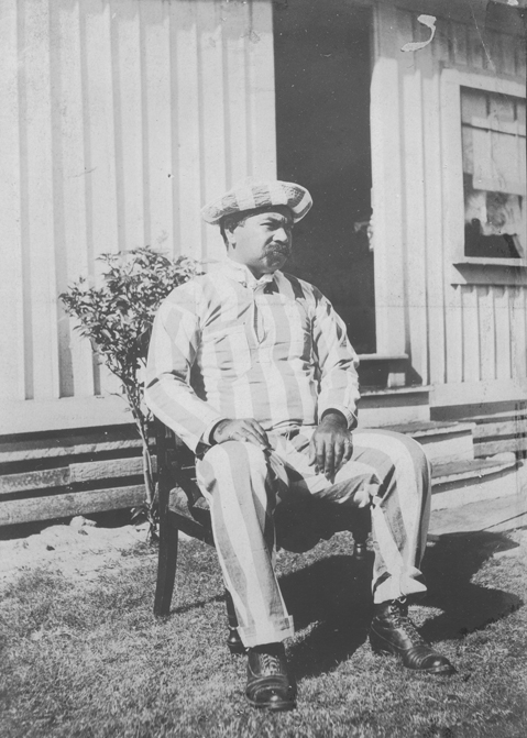 Prince Jonah Kuhio Kalaniana`ole in prison uniform.